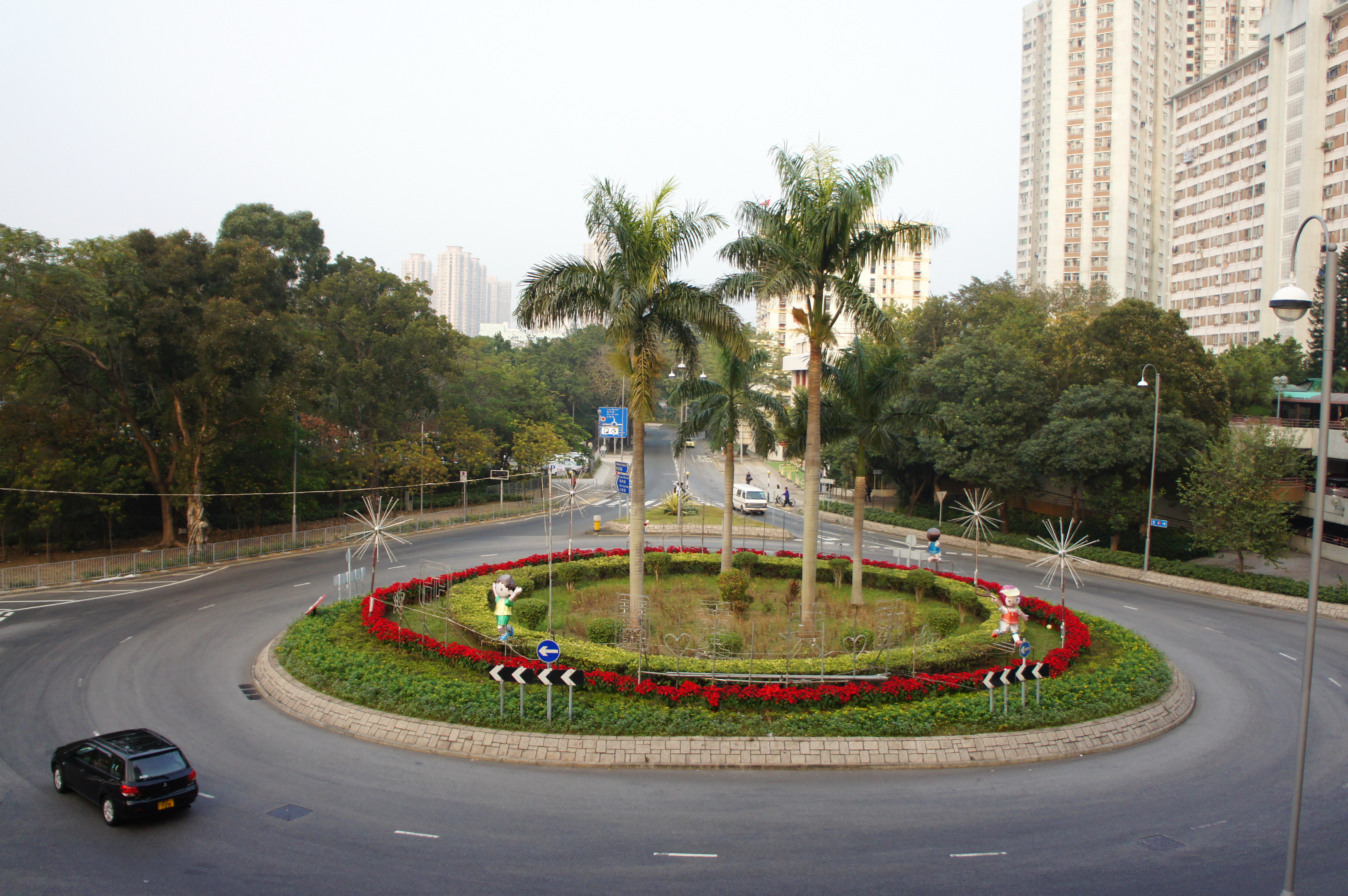 San Wan Road and Sha Tau Kok Road, Fanling, New Territories, Hong Kong.